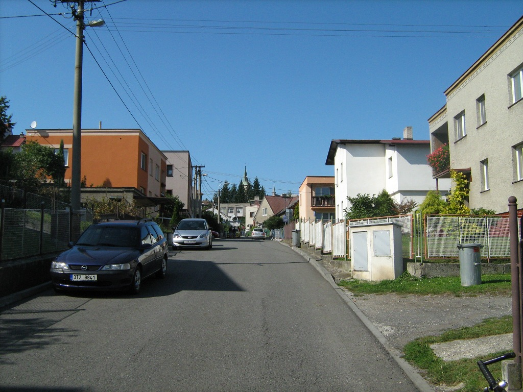 Village Hošťálkovice, Ostrava, Cz